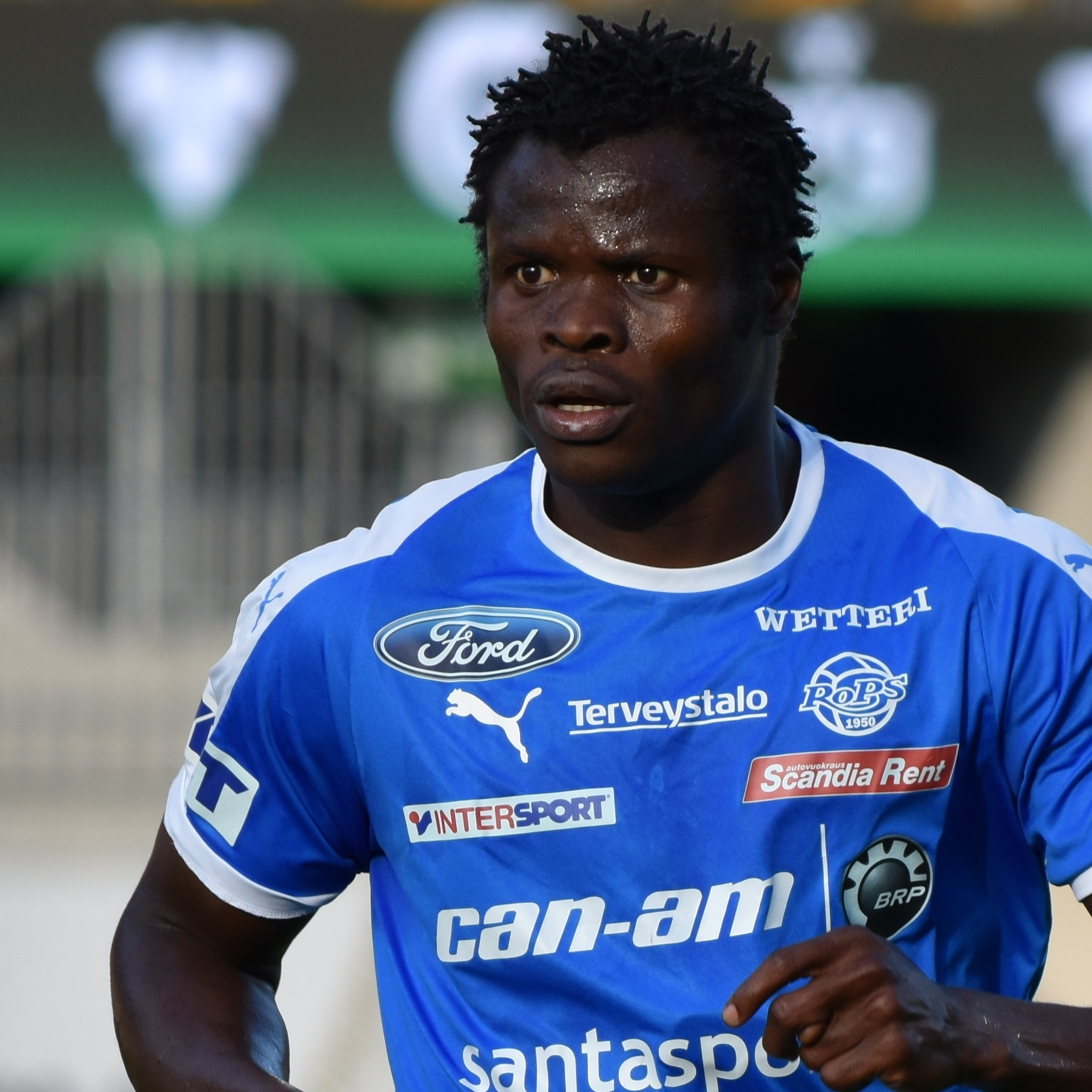 Association football player Taye Taiwo (RoPS)